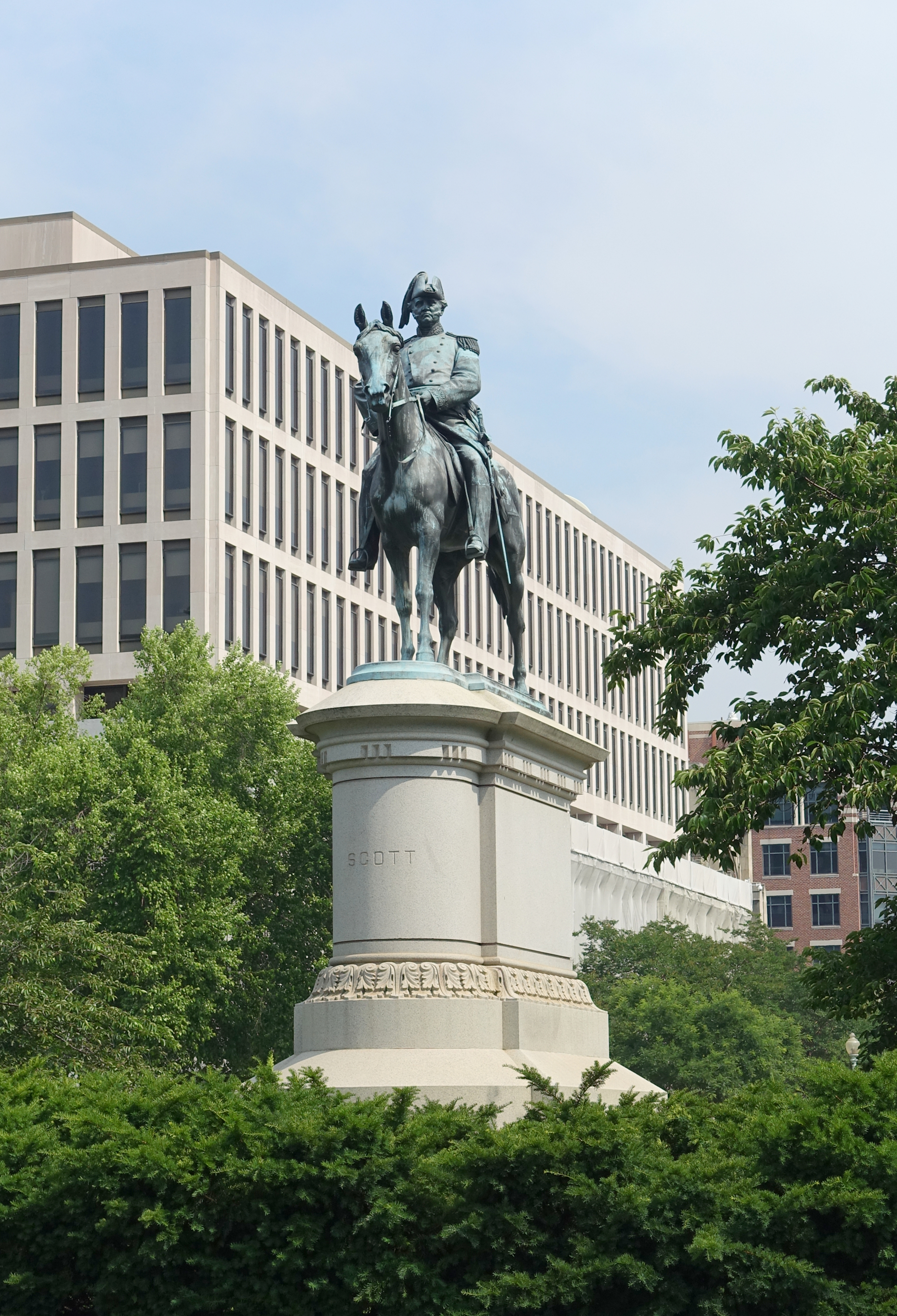 Winfield Scott Memorial - Scott Circle, Washington, DC, USA. Sculptor: Henry Kirke Brown (1814-1886). This artwork is in the public domain because the artist died more than 100 years ago.